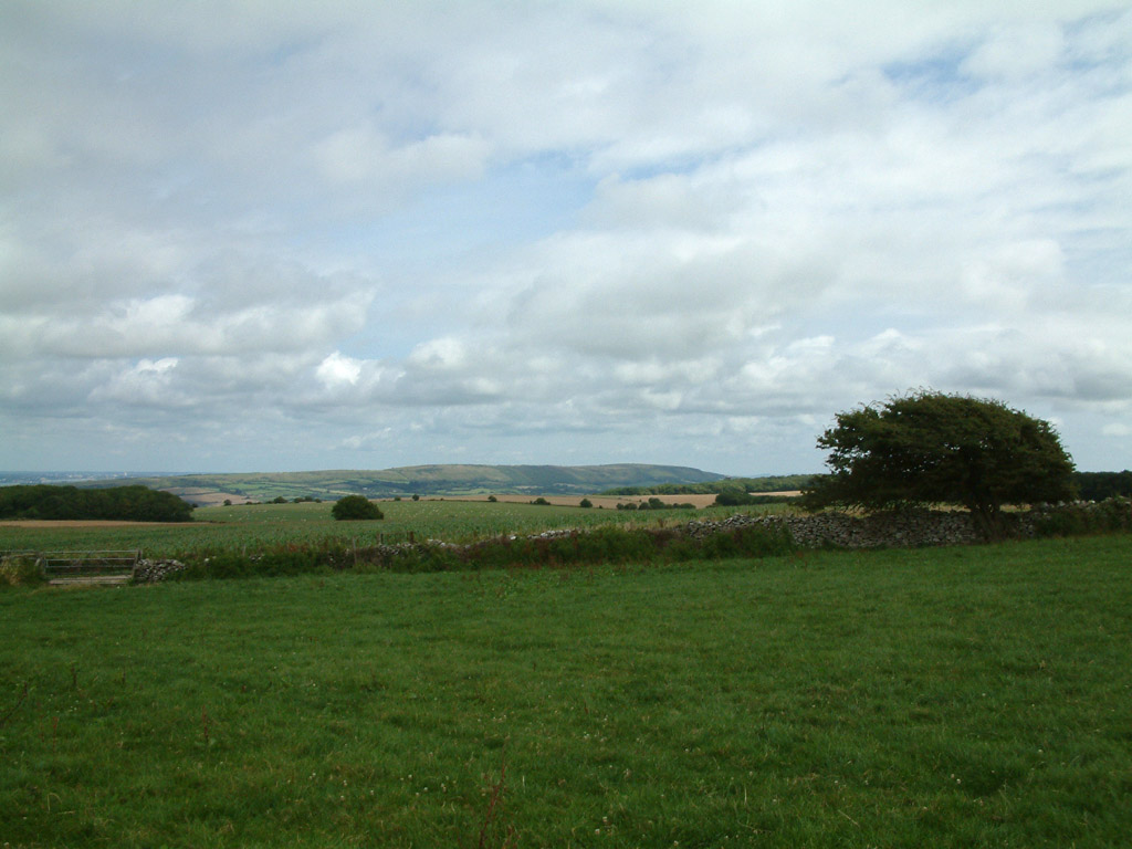 Nine Barrow Down from the north of Swyre Head. Photograph by Stephen Dawson, 13 August 2005.